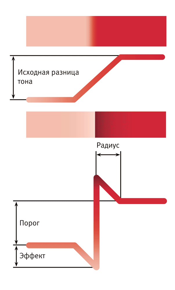 Unsharp masking options